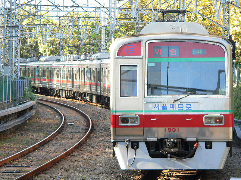 Seoul Subway Line1 VVVF Train (belonging to SeoulMetro)